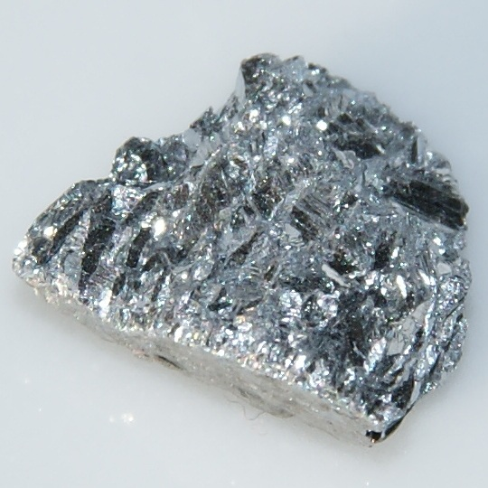 Antimony crystal, 2 grams, 1 cm.